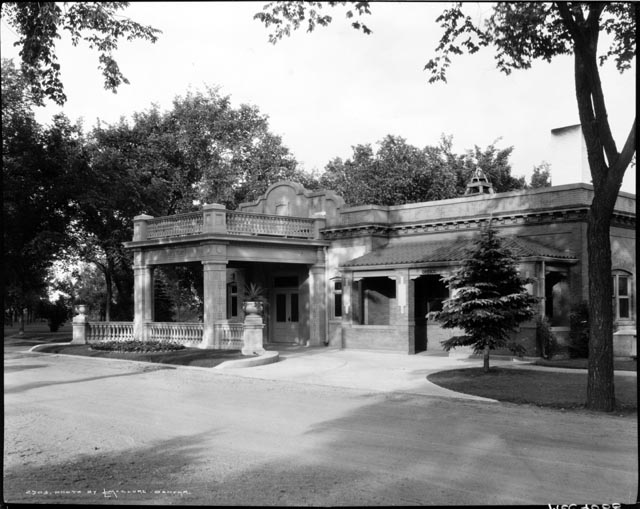 Office of Denver, Colorado's Riverside Cemetery